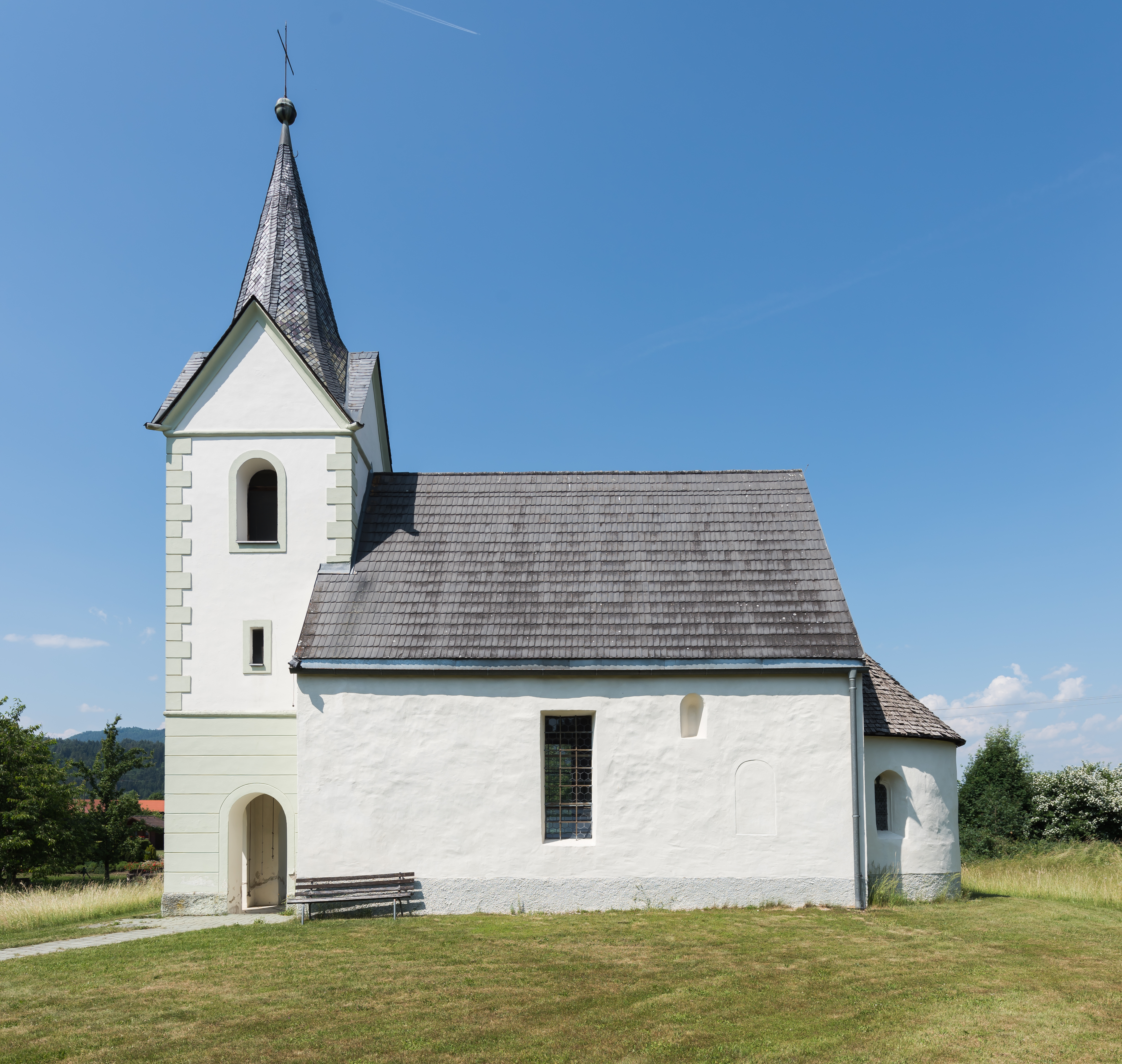 Subsidiary church Saint Bartholomew at Tessendorf, 9th district "Annabichl", municipality Klagenfurt on the Lake Woerth, Carinthia, Austria, EU